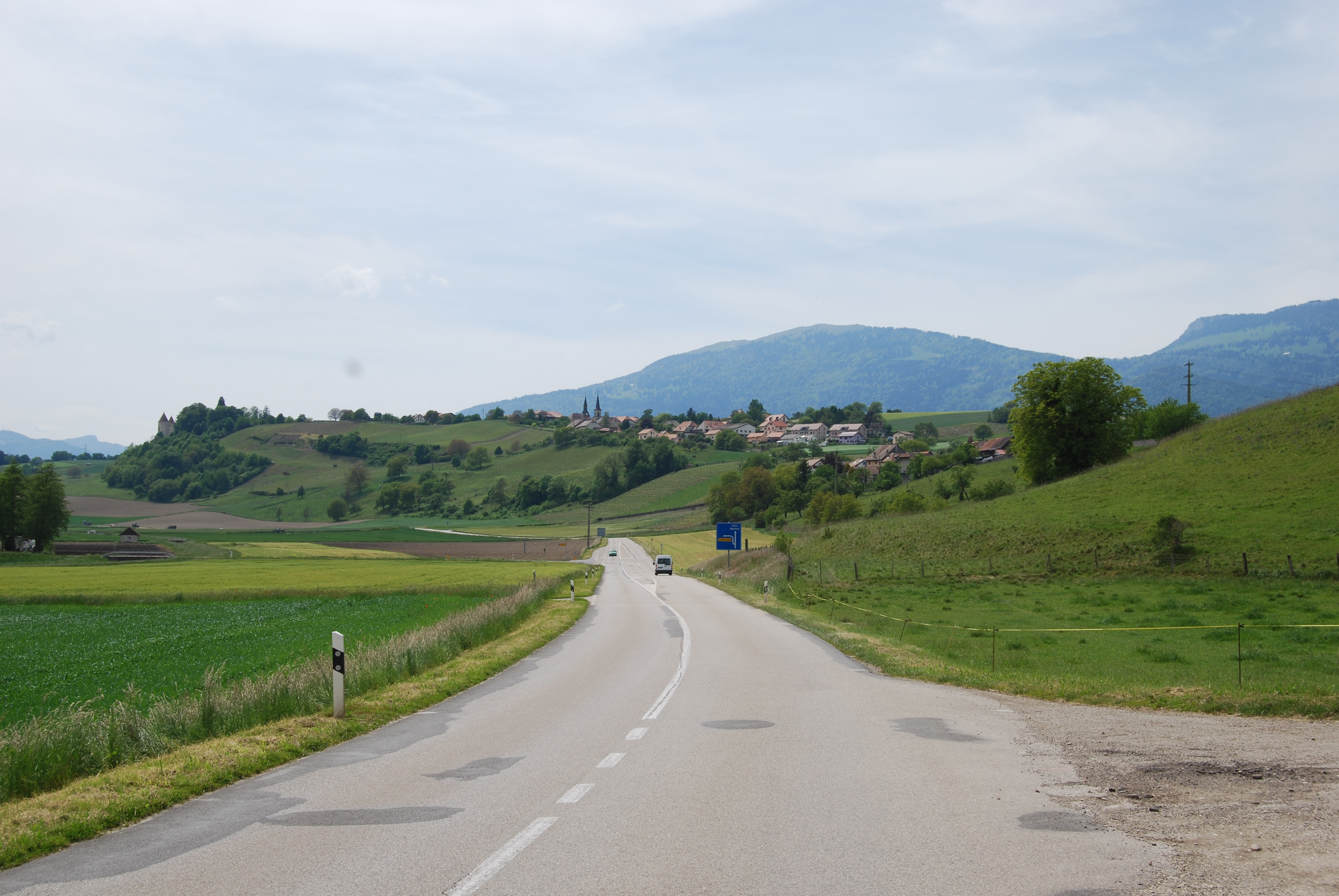 Champvent, canton of Vaud, SwitzerlandEsperanto: Champvent, Kantono Vaŭdo, Svislando